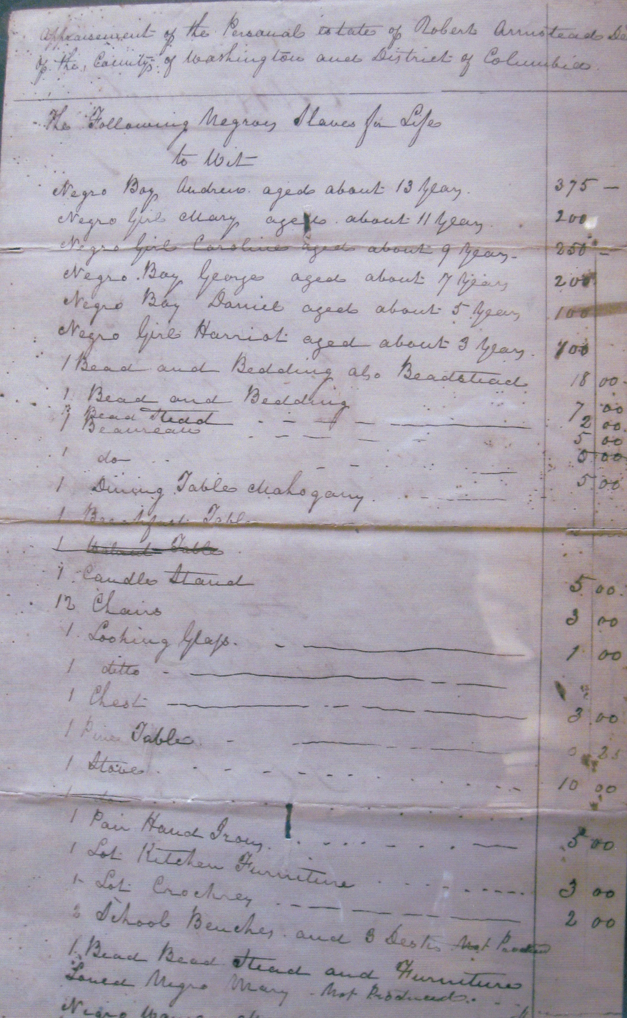 1832 appraisal of the estate of Robert Armistead listing the enslaved children of Daniel and Mary Bell and their valuation. Daniel Bell a blacksmith at Washington Navy Yard was one of the leaders in the famous 1848 Pearl attempted escape to freedom Daniel and Mary's children listed on this document were later recaptured and sold.